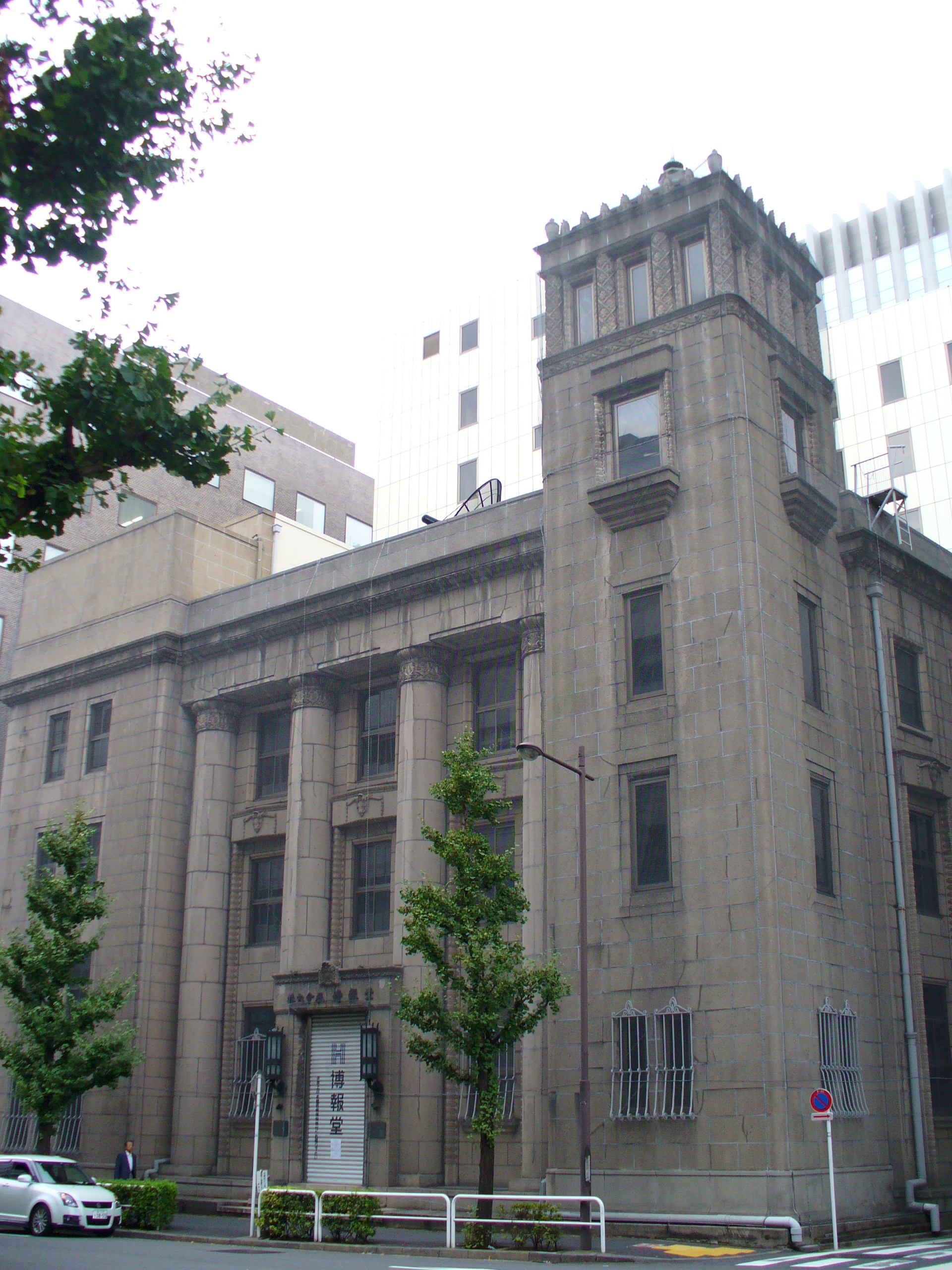 Hakuhodo old head office